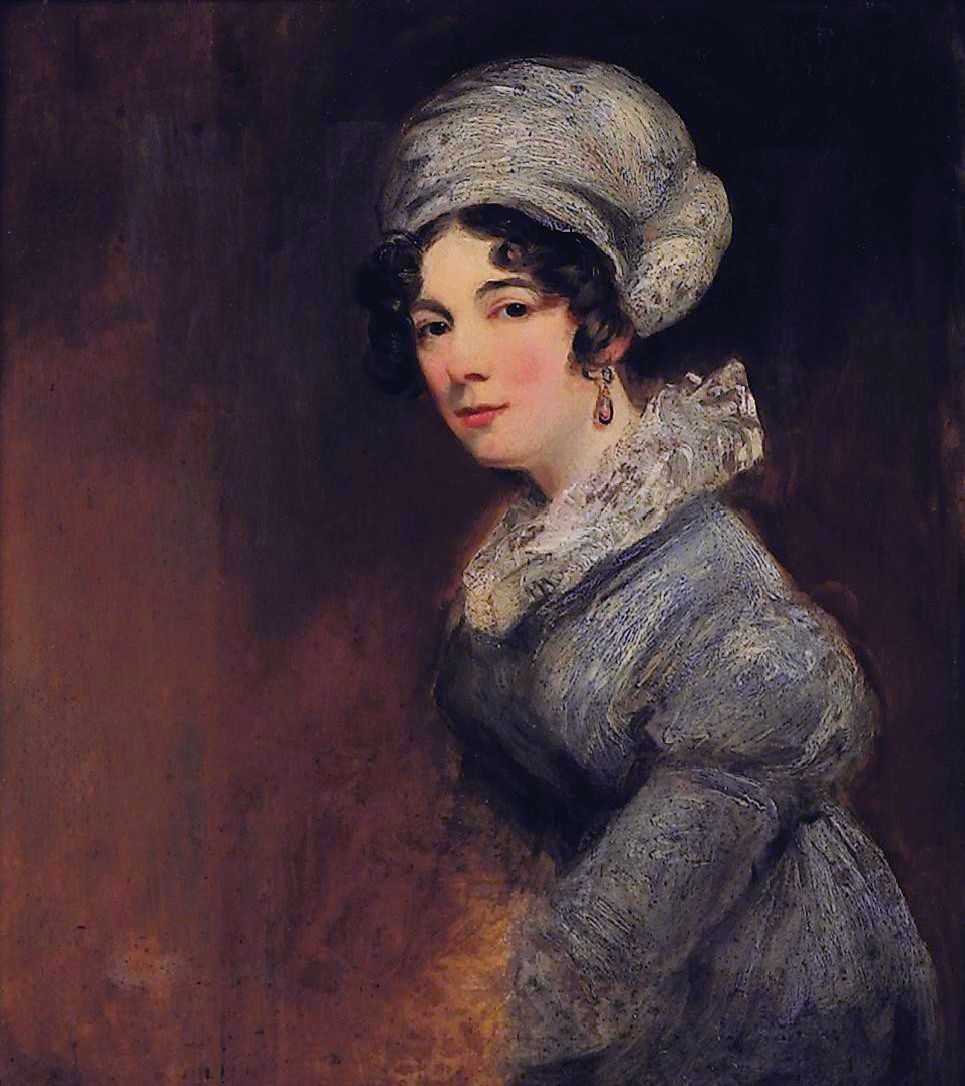 An oil-on-panel portrait of Sarah Lyttelton, Baroness Lyttelton (née Spencer) (1787–1870), a British courtier, governess to Edward VII of the United Kingdom and wife of William Lyttelton, 3rd Baron Lyttelton. She was the eldest daughter of the Whig politician Sir George Spencer, 2nd Earl Spencer. The painting is believed to be a study for a group portrait of Sarah Spencer, Lady Lyttelton and William Lyttelton presently at Althorp, the seat of the Spencer family.